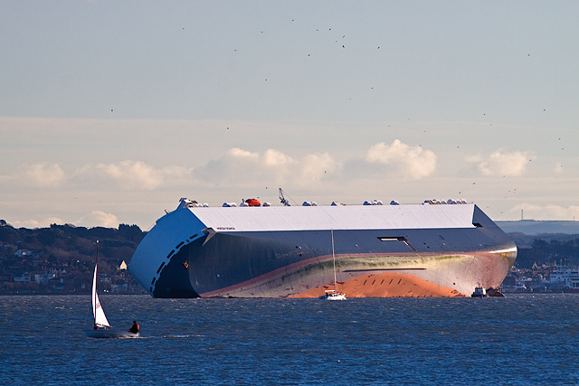 The Hoegh Osaka - stuck on the Bramble Bank (1)